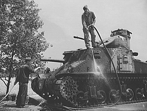 M3 Lee medium tank, Fort Knox. Maintenance of mechanized equipment. Tanks, as well as the Army's trucks, motorcycles and other motorized equipment, pay regular visits to the wash rack. Wherever possible, modern military vehicles are kept in spic and span condition and mechanically ready for strenuous action.